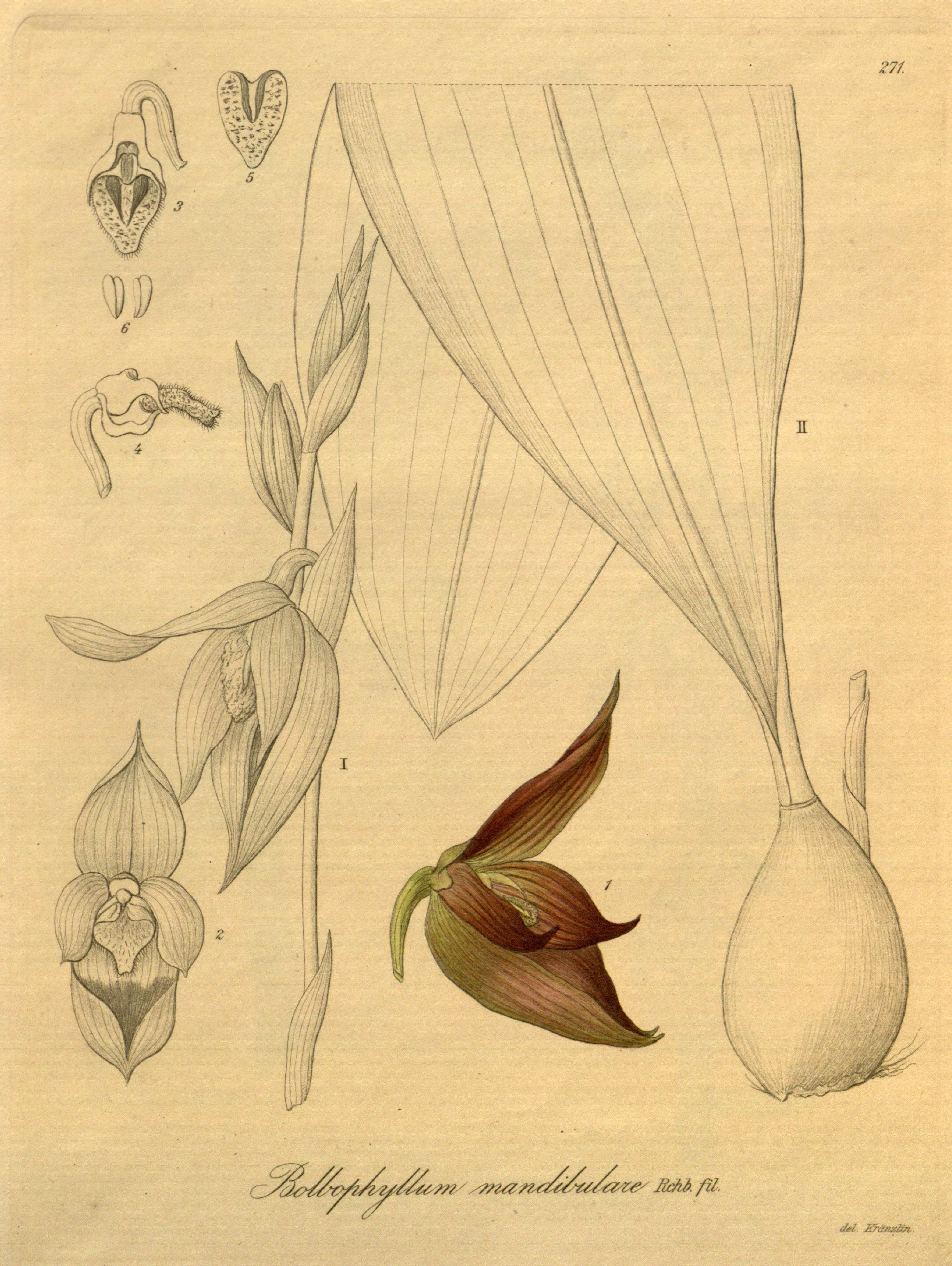 Illustration of Bulbophyllum mandibulare (spelled by Kränzlin Bolbophyllum m.)